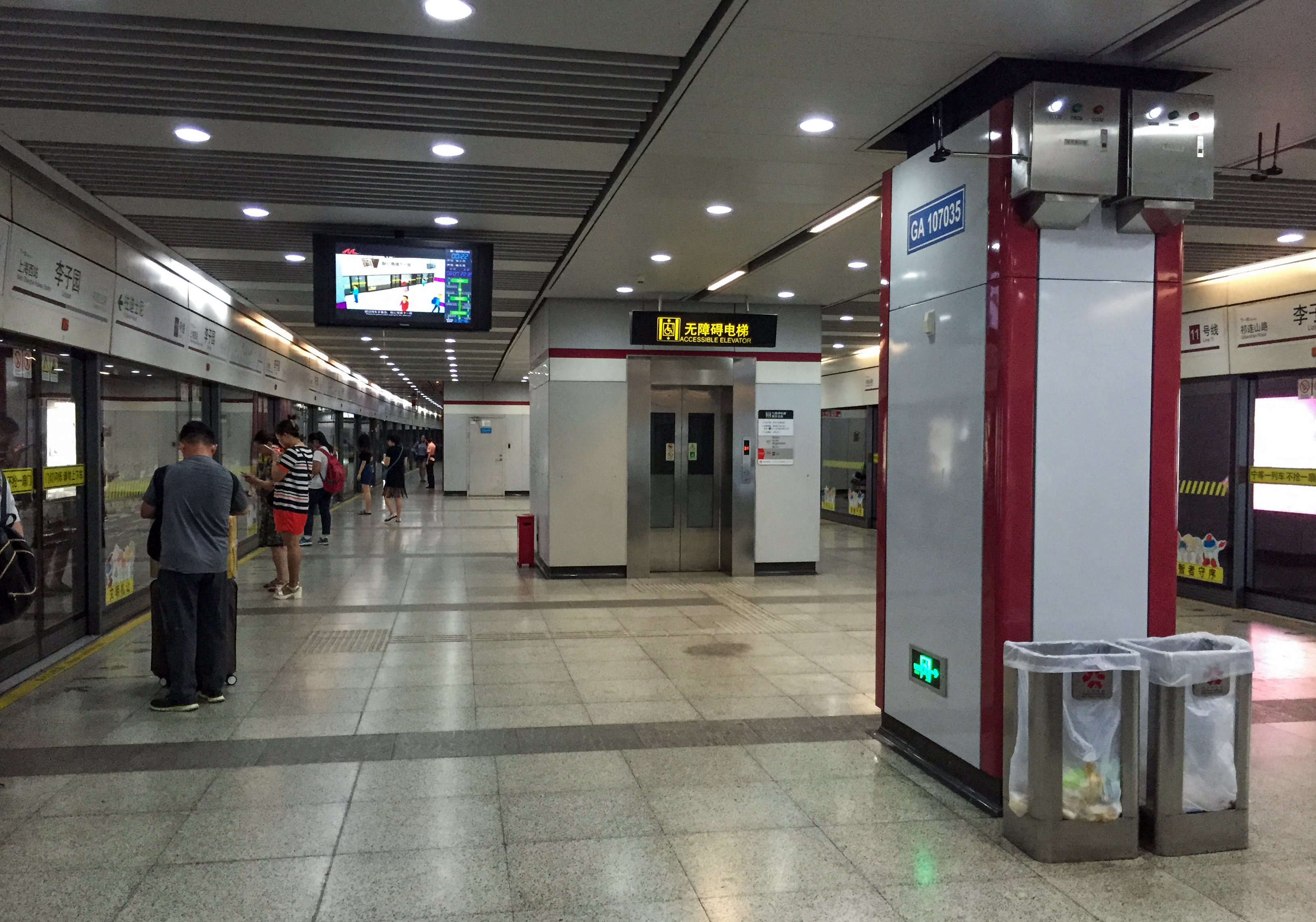 The running-in wall isn't on the central section... nothing to do with dairy.